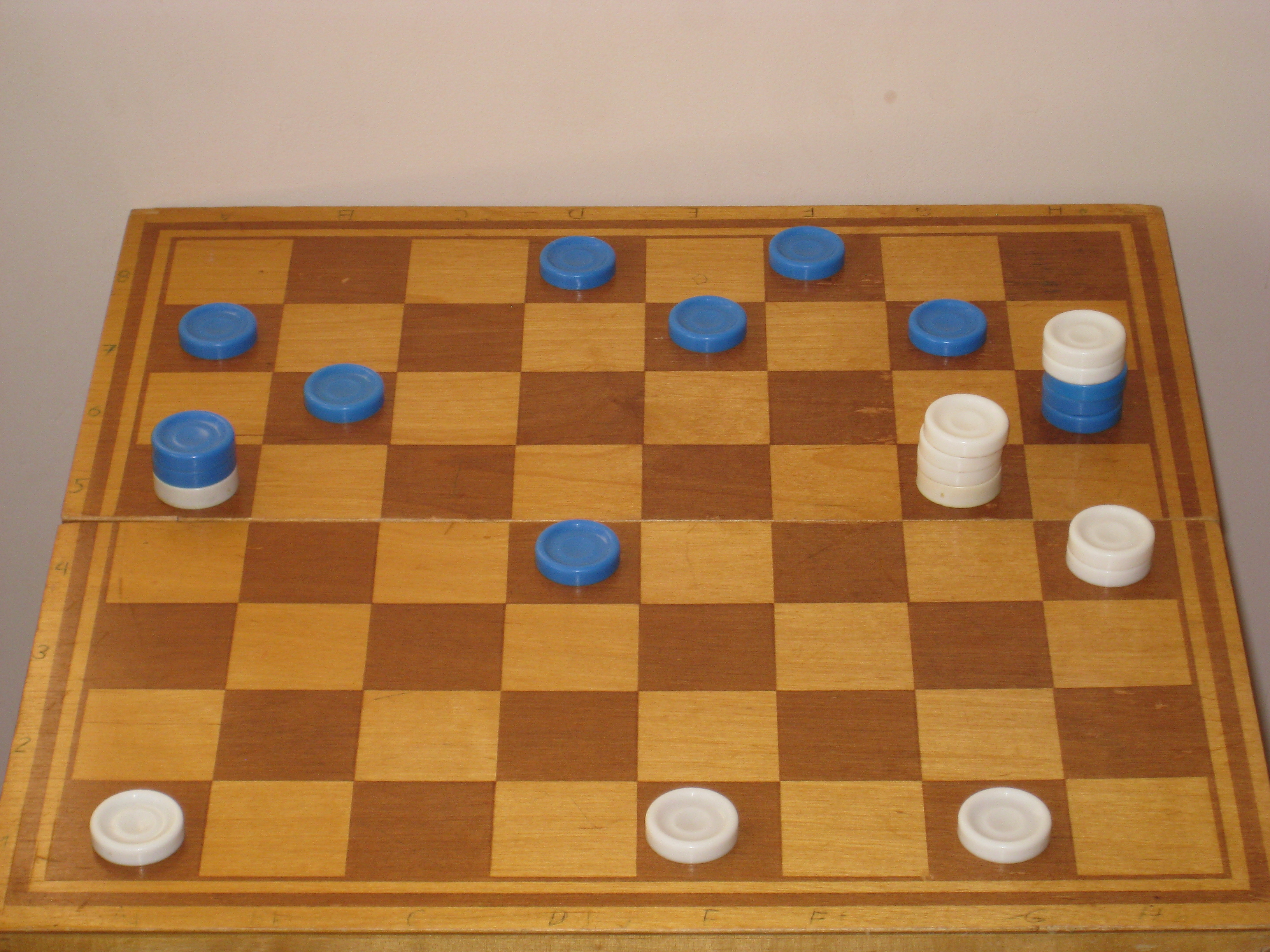 Position in game Bashni (variant russian draught)